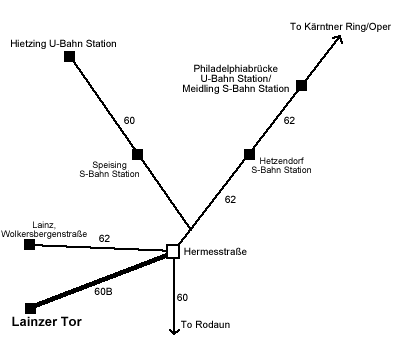 Public transportation access to the Lainzer Tor of the Lainzer Tiergarten in Vienna